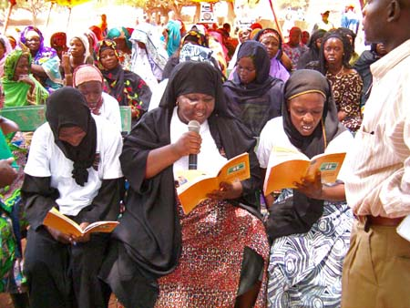 Djougou, Benin